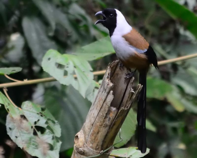 Collared Treepie (Dendrocitta frontalis) at Deban, Arunachal Pradesh